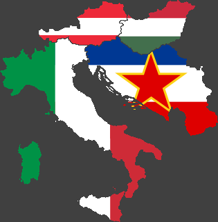 Map of the CEI founding members, 1989